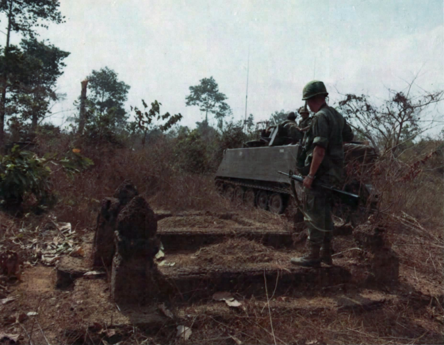 ATTACK ON LONG BINH POST. Members of the 1st Squadron 11th Armored Cavalry, halt their M-113 Armored Personnel Carriers in a Vietnamese cemetery during a break in the firefight.